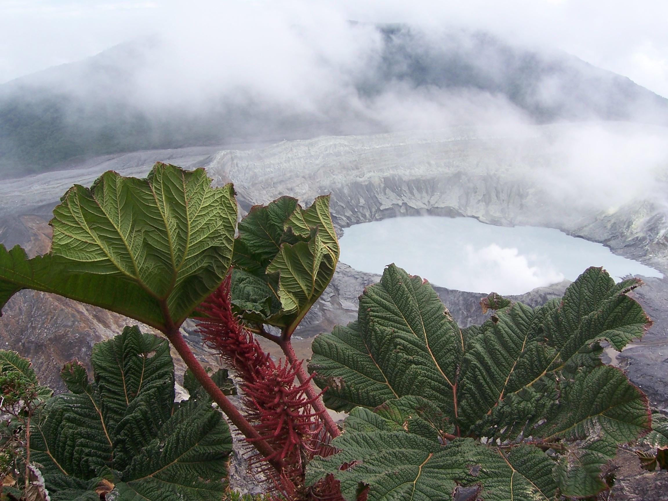 Image title: Poas volcano caldera and poor mans umbrella Image from Public domain images website